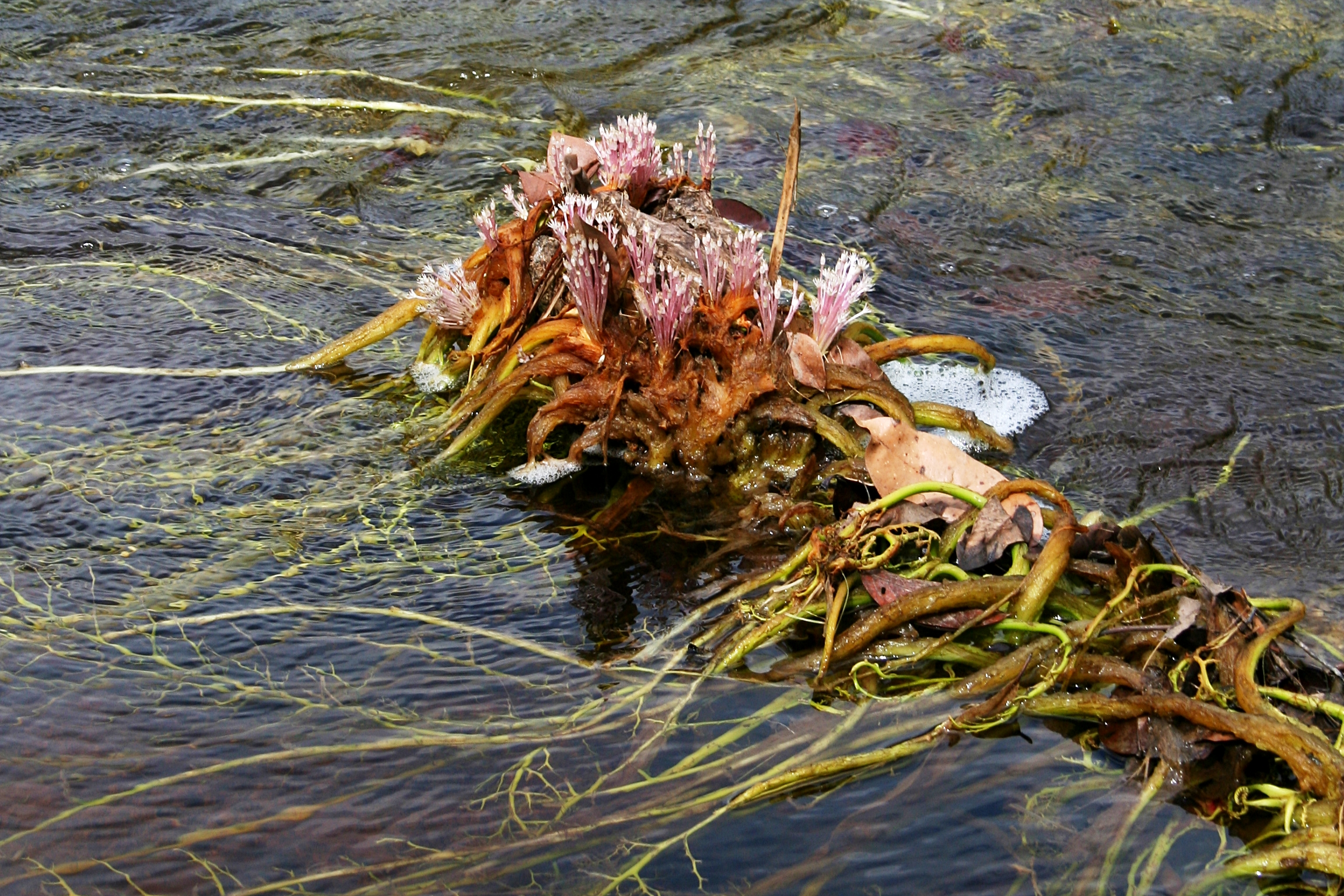 Flowers and underwater leaves of Rhyncholacis penicillata (Podostemaceae family). Picture taken in the Carrao riverbed, near Canaima in Bolivar state, Venezuela.